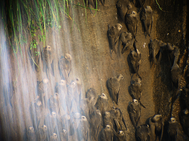 Great Dusky Swift (Cypseloides senex) at Iguazu Falls